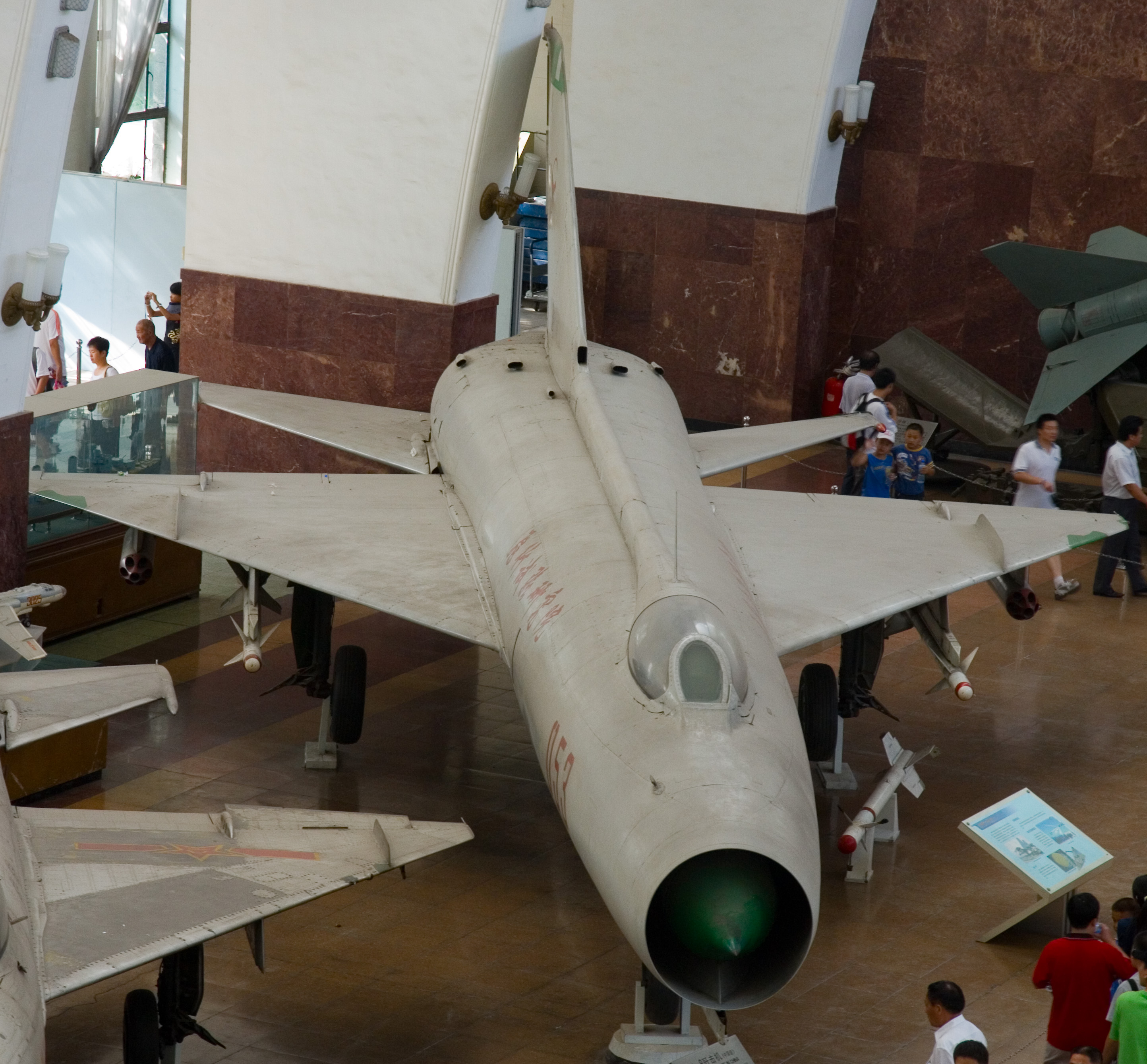 A Chinese J-8 fighter at the Beijing Military Museum. Note that this is the early type.